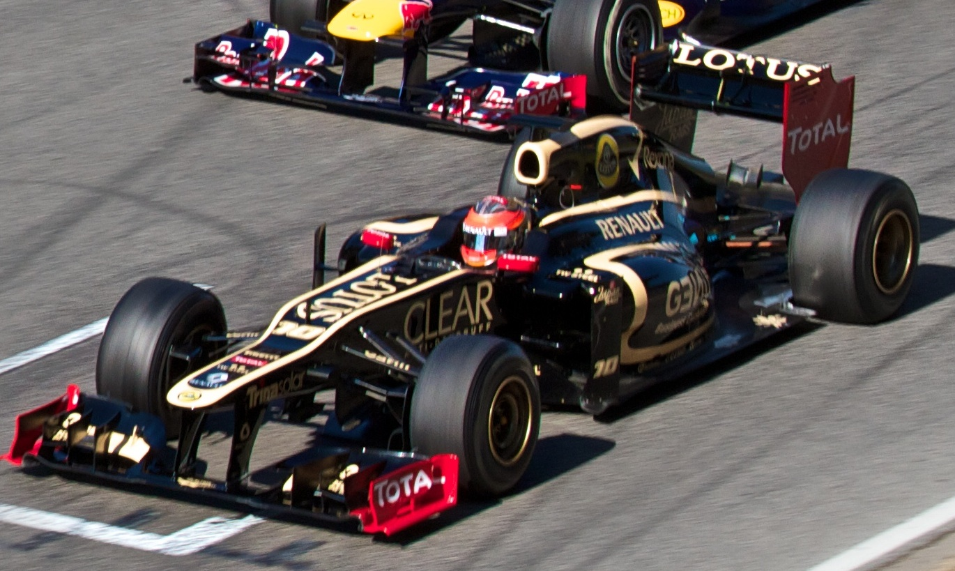 Grosjean Lotus E20 and Vettel Red Bull RB8 testing at Barcelona